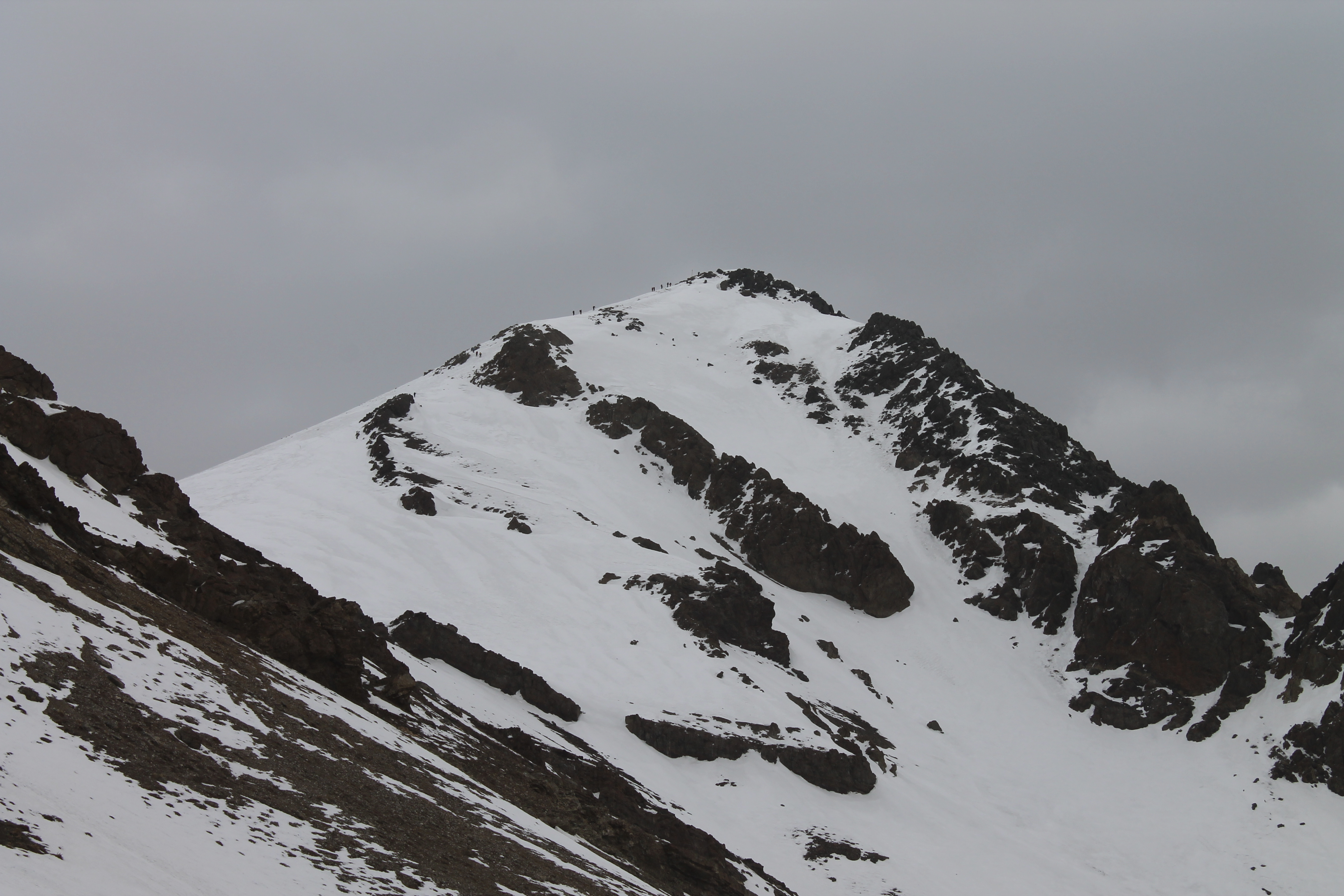 march 2013